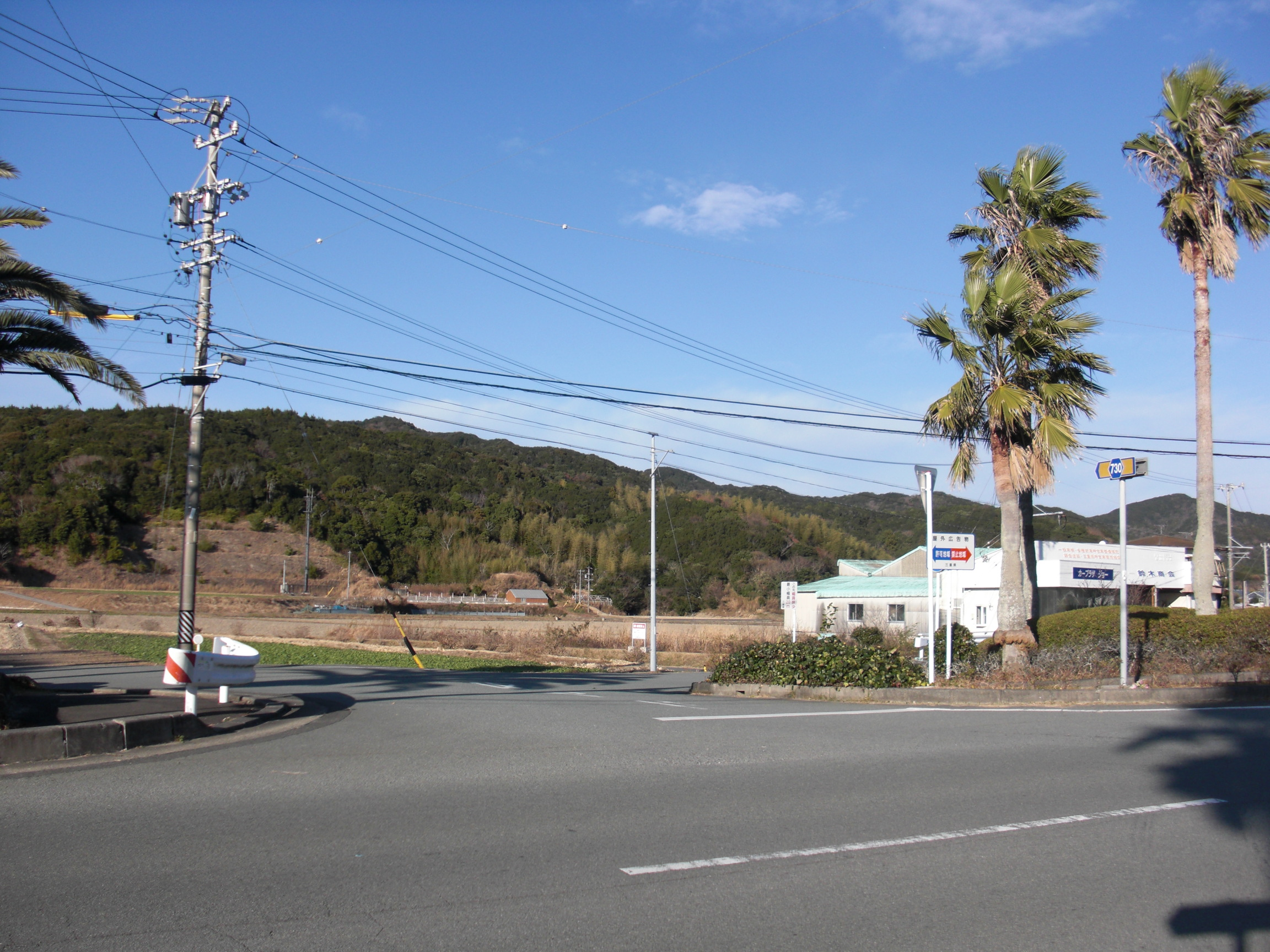 This is the edn of Mie prefectural road No.730 Hiyamaji Nambari line, which is located in Shima, Mie, Japan.